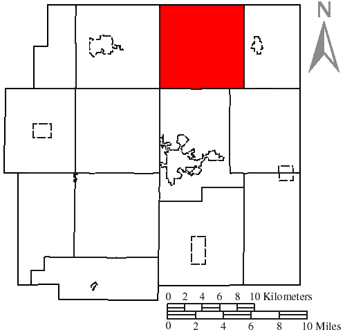 Made by the US Census and modified by myself